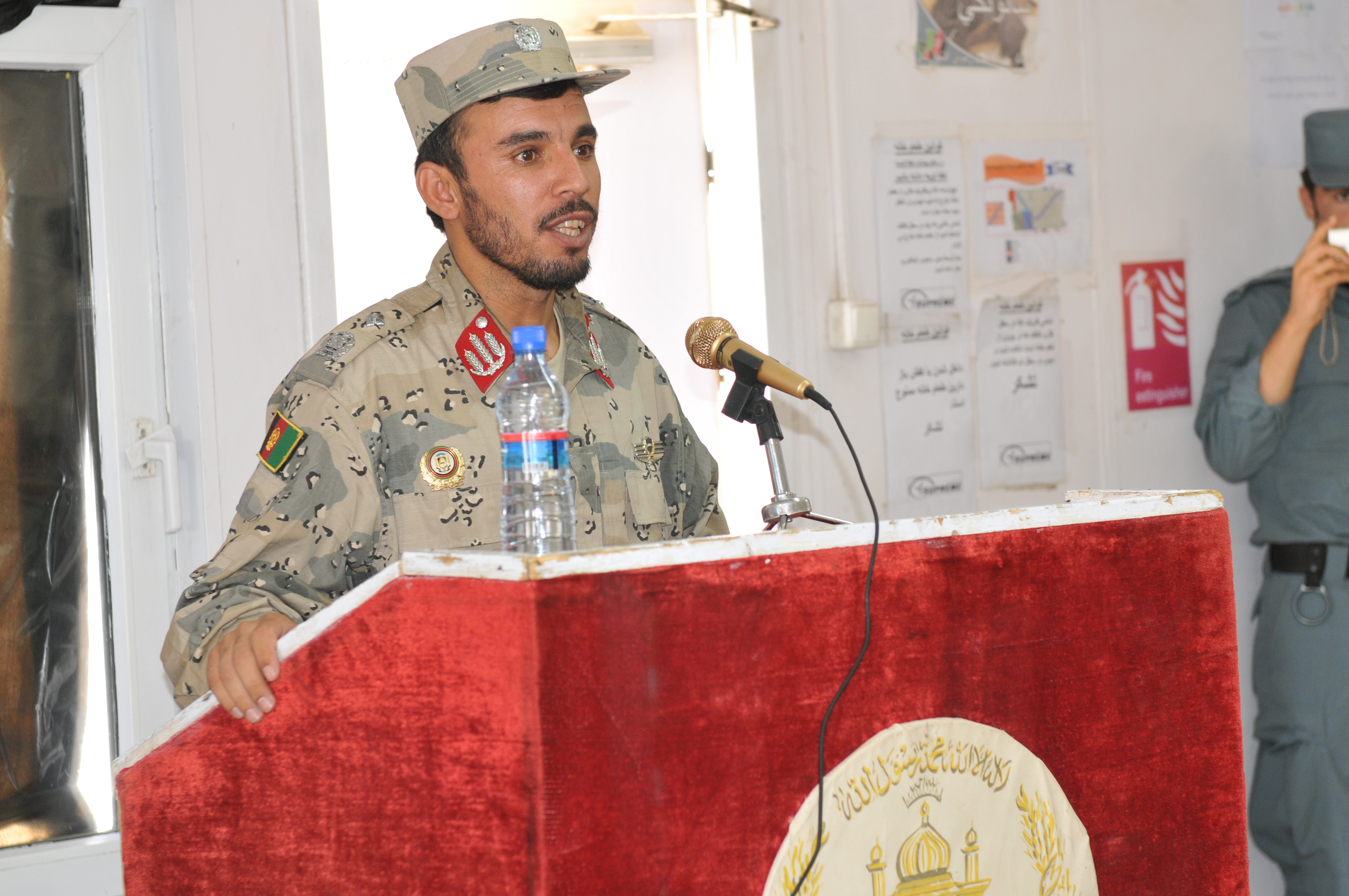 Afghan Brig. Gen. Abdul Raziq, Kandahar provincial chief of police, addresses 138 new Afghan Uniform Police noncommissioned officers during their graduation ceremony at the Kandahar Regional Training Center in southern Afghanistan, Jun. 7, 2012. The new AUP NCOs completed six weeks of literacy training followed by eight weeks of police specific and leadership lessons. (U.S. Air Force photo by Tech. Sgt. Renee Crisostomo/Released)